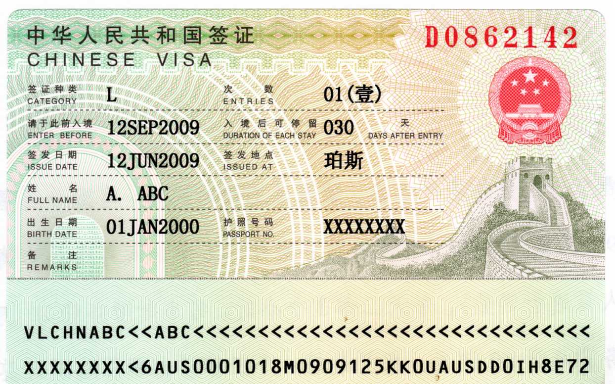 Chinese tourist visa.